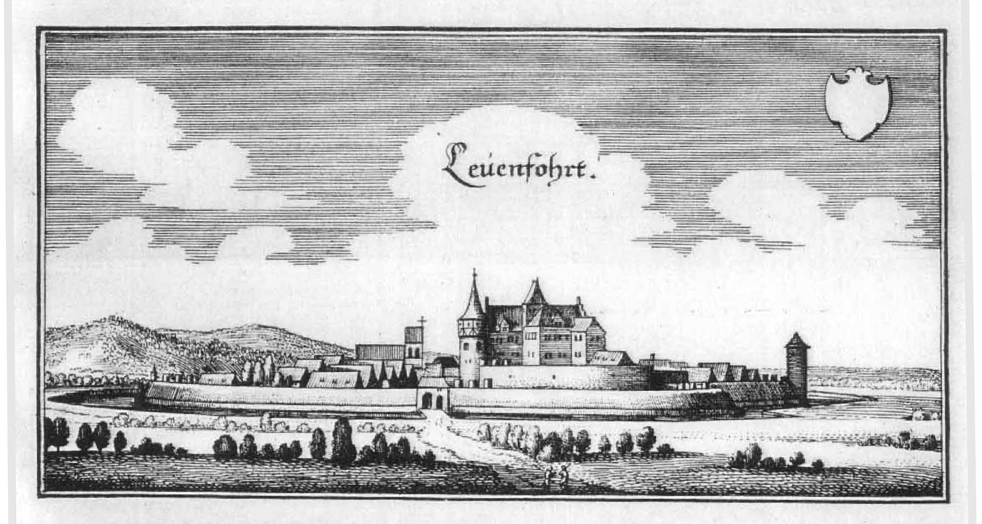 This is a scan of the historical document